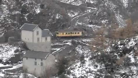 Train station of Nyer, in the Pirenées Orientales in France